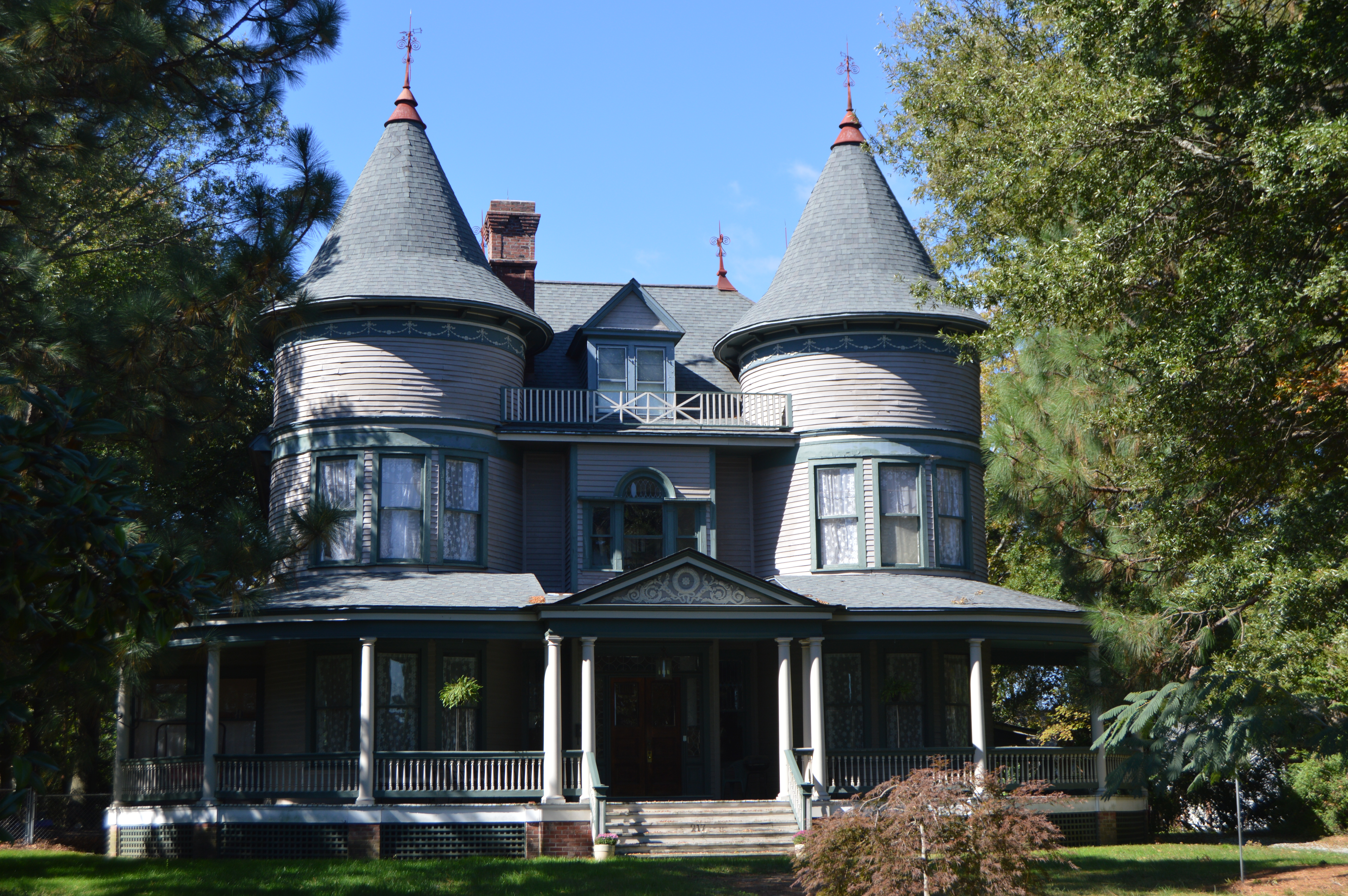 Front of the James A. and Laura Thompson Long House, located at 217 S. Main Street in Roxboro, North Carolina, United States. Built in 1896, it is listed on the National Register of Historic Places.